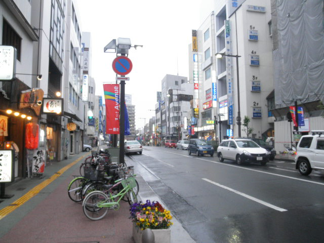 Ichibantown3 Tokushimacity Tokushimapref